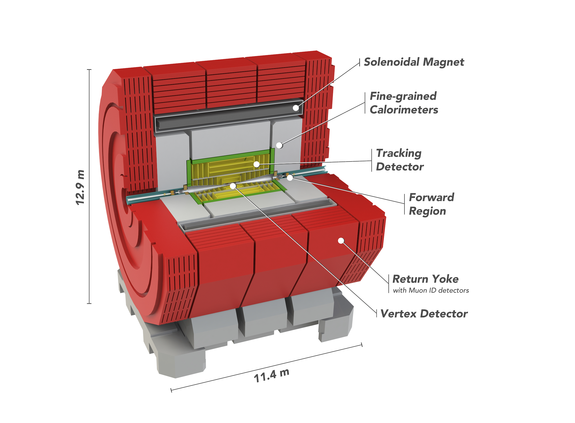 The 'CLICdet' detector model for CLIC is a state-of-the-art detector, built using cutting-edge technology and optimised through simulation.